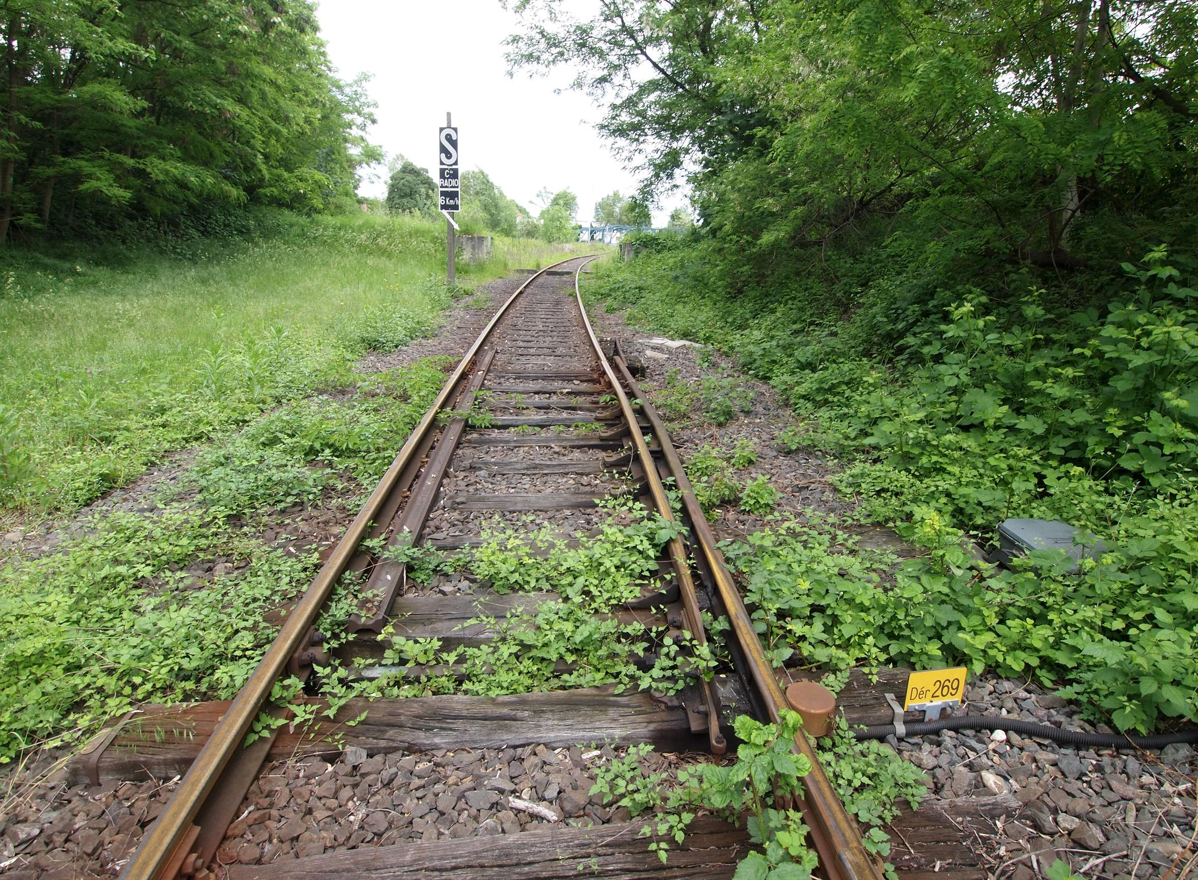 Derail point before a swing bridge in the port of Strasbourg, France